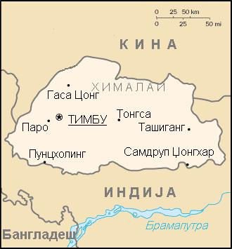 Map of Bhutan on Macedonian.